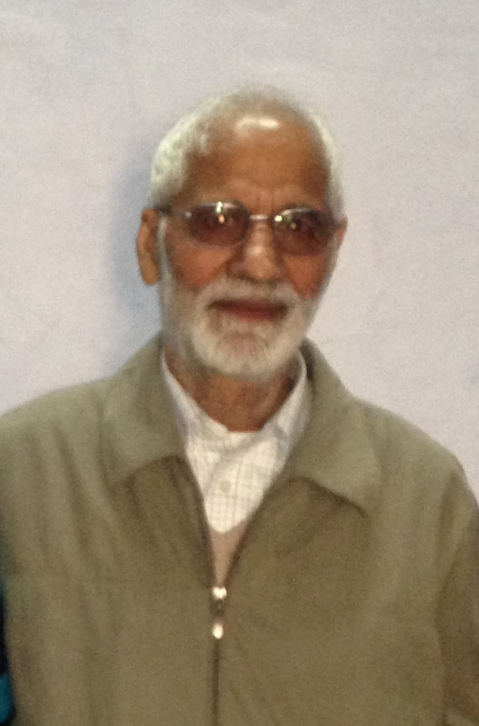 Punjabi Novelist